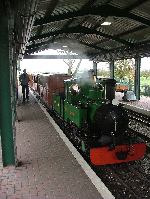 St. Egwin of the Evesham Vale Light Railway. The train takes you to another station. You can go on a walk from there. We did not know this so we did not have time to explore.